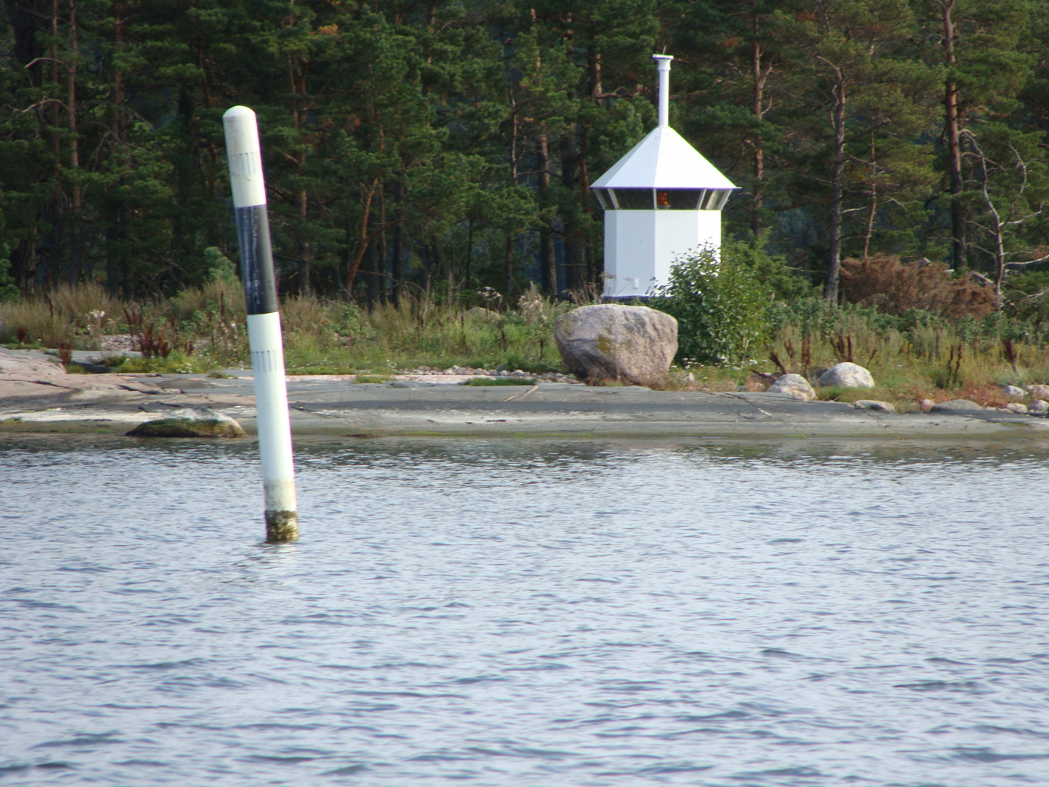 West cardinal spar buoy and a sector light marking a fairway west of Södra Granholm island in South-Eastern Archipelago Sea in Finland.